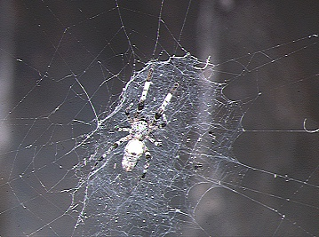 female Zosis geniculatus from Okinawa.